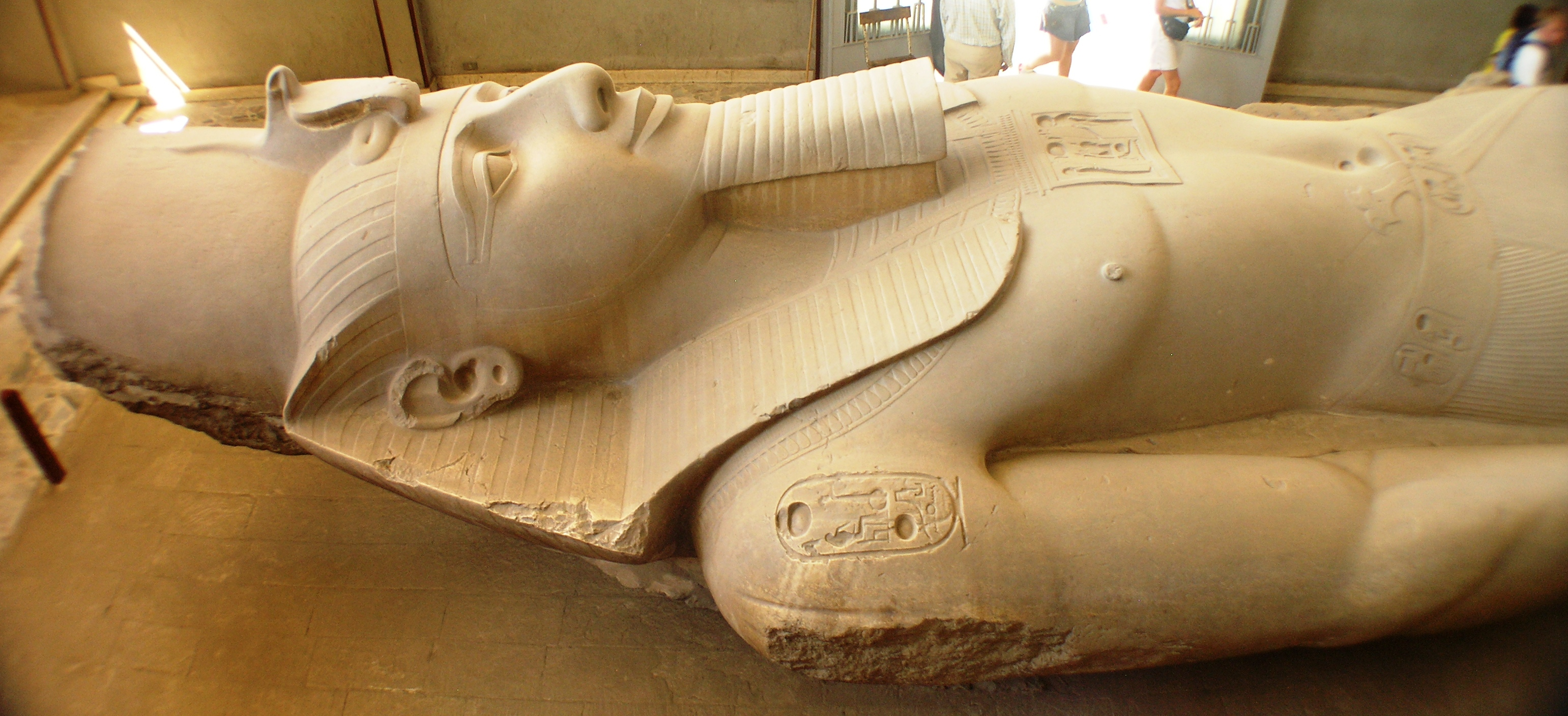 Memphis - Ramses Colossus - view from second level of museum